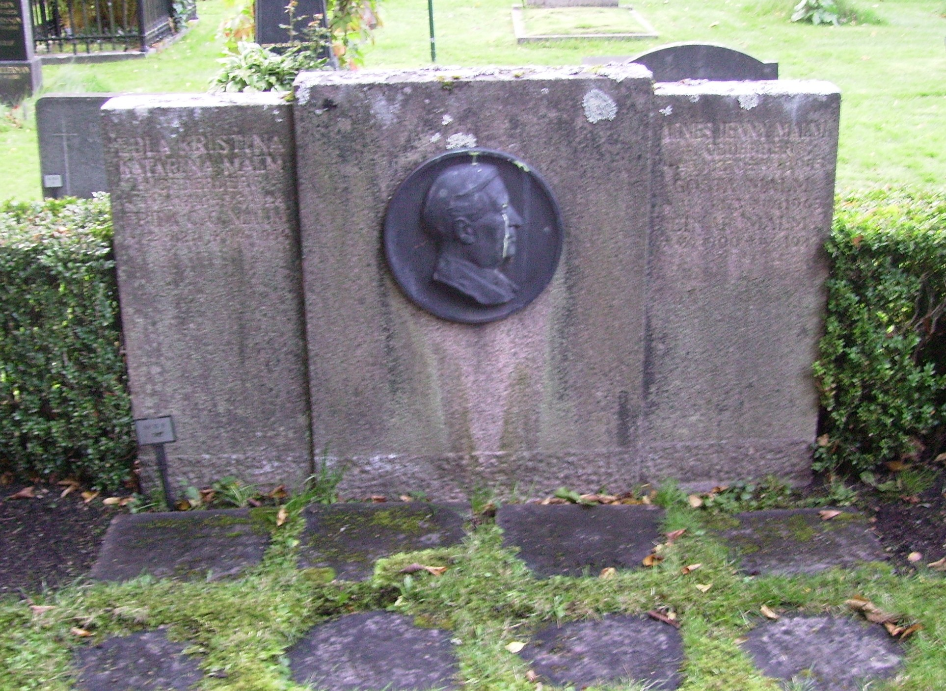 Picture of Gösta Malm's grave at Norra begravningsplatsen in Stockholm